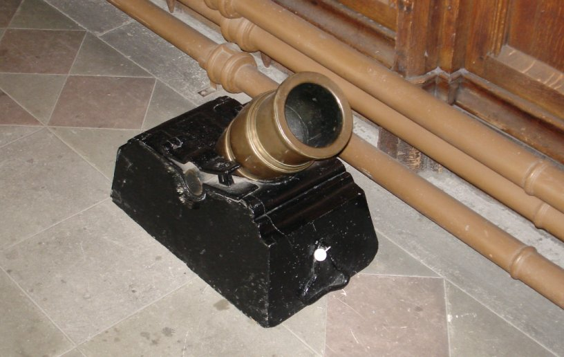 Georgian-era British Coehorn Portable Mortar, in the Great Hall at Edinburgh Castle.